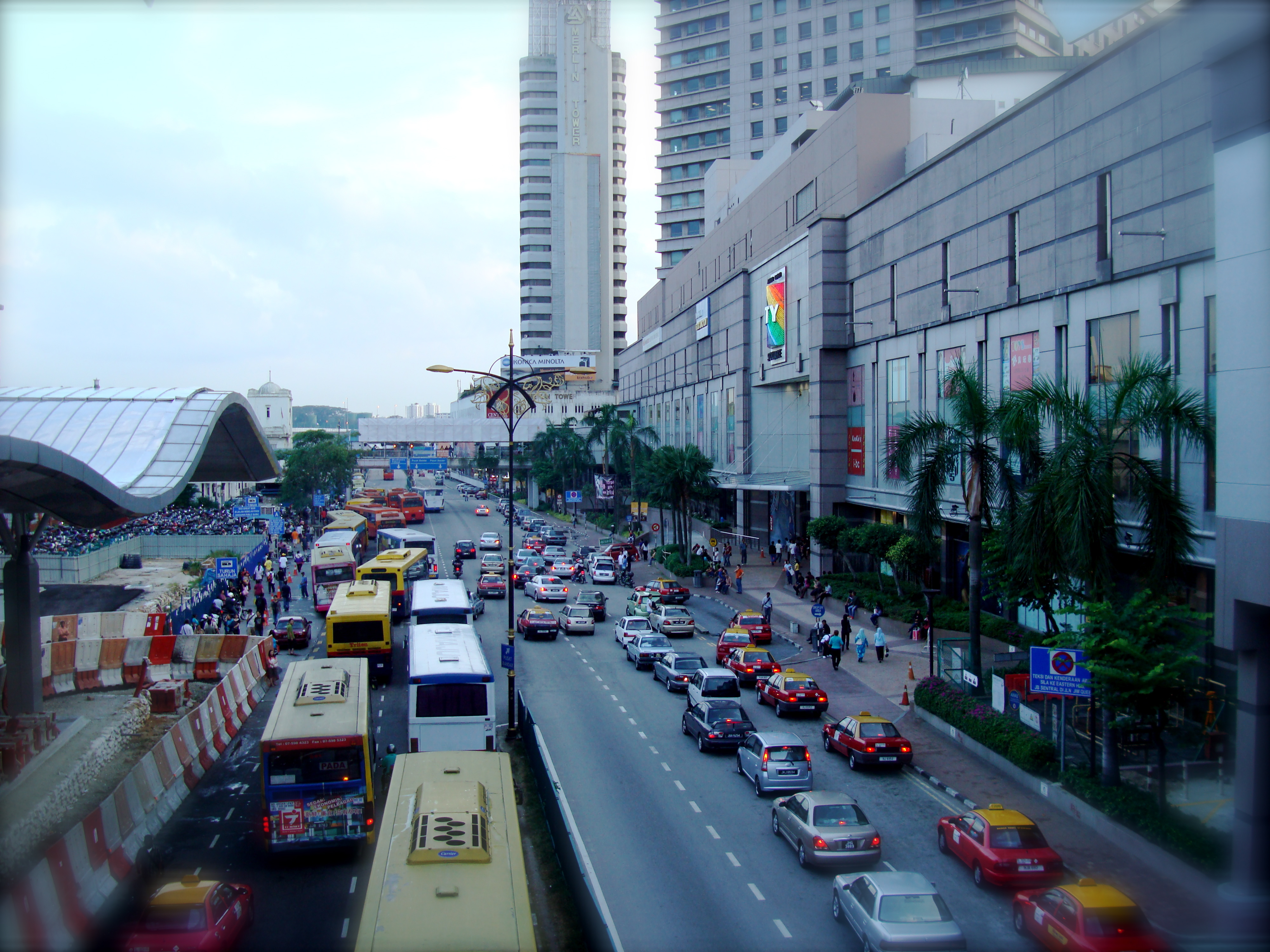 Johor Bahru Sentral and Highway, Malaysia.